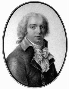 Edward Onslow